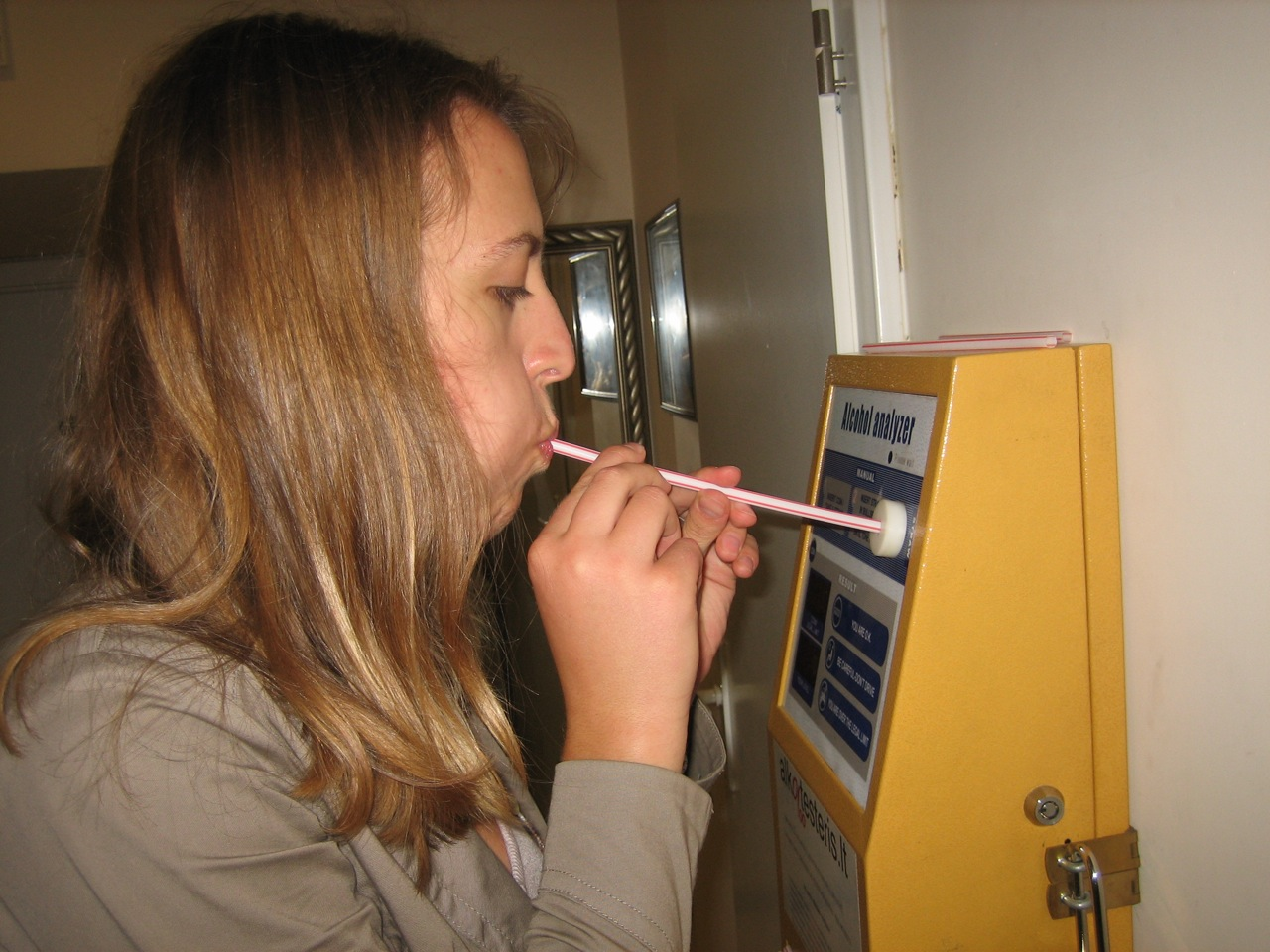 Someone using a breathalyzer